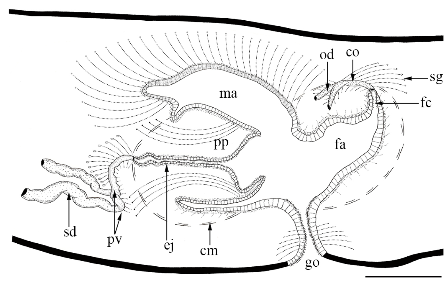 Schematic drawing in sagittal view of the copulatory apparatus of Cratera viridimaculata. cm, common muscle coat; co common ovovitelline duct; ej ejaculatory duct; fa female atrium; fc female genital canal; go gonopore; ma male atrium; od ovovitelline duct; pp penis papilla; pv prostatic vesicle; sd sperm duct; sg shell glands.